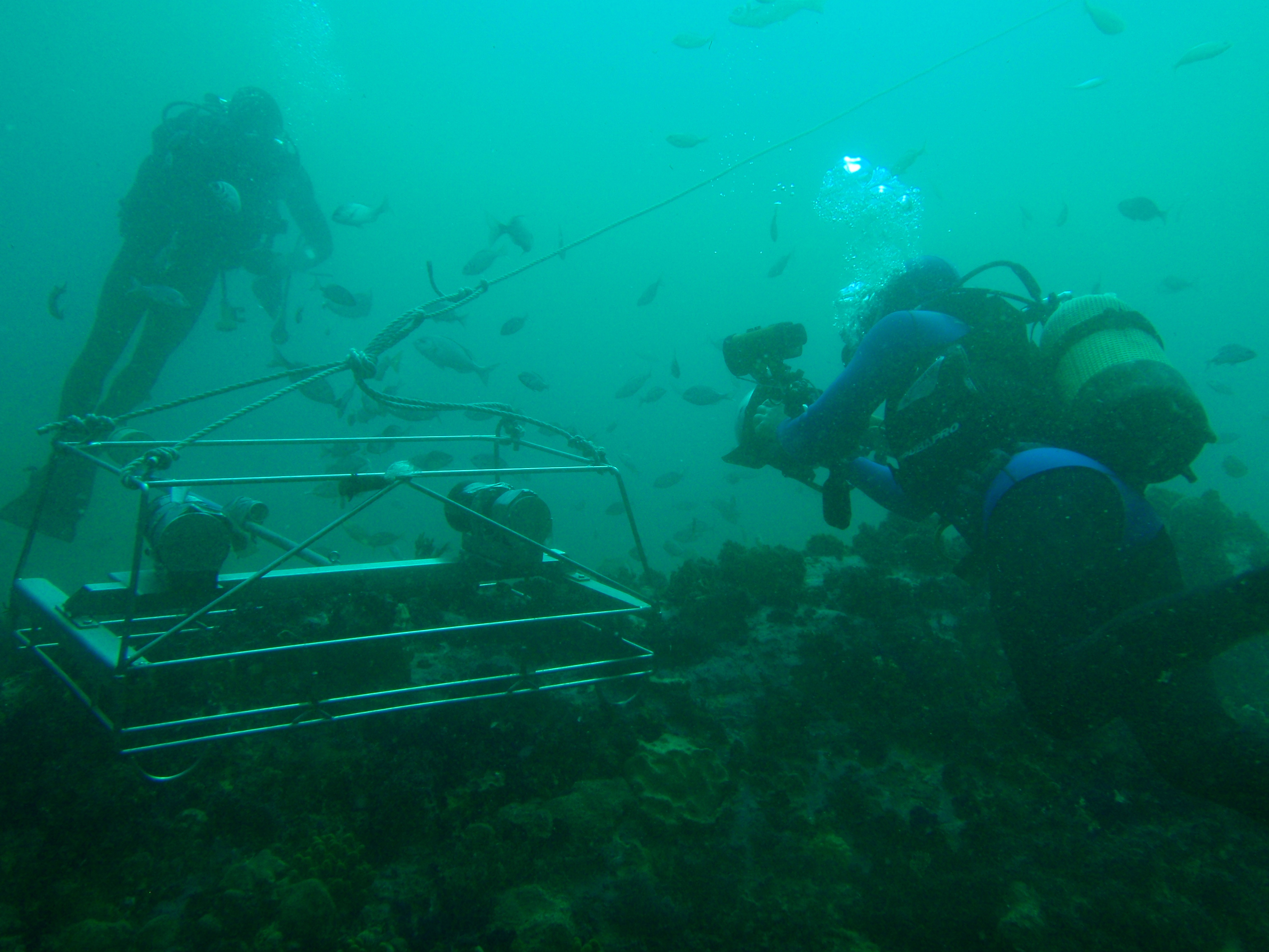 Divers inspecting a stereo BRUVS frame at Rheeder's Reef in the Tsitsikamma National Park MPA